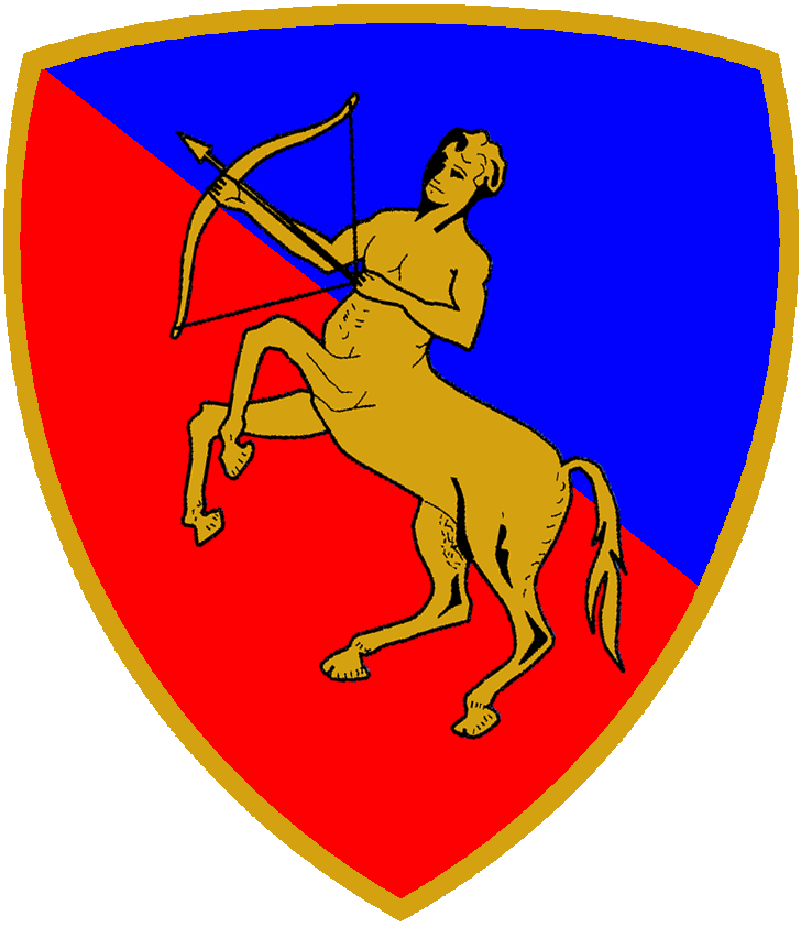 Coat of Arms of the Italian Army Armoured Brigade Centauro